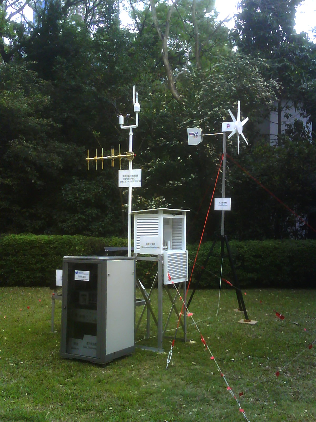 Open Day 2007 of The Hong Kong Observatory Headquarters. Meteorological Instruments.